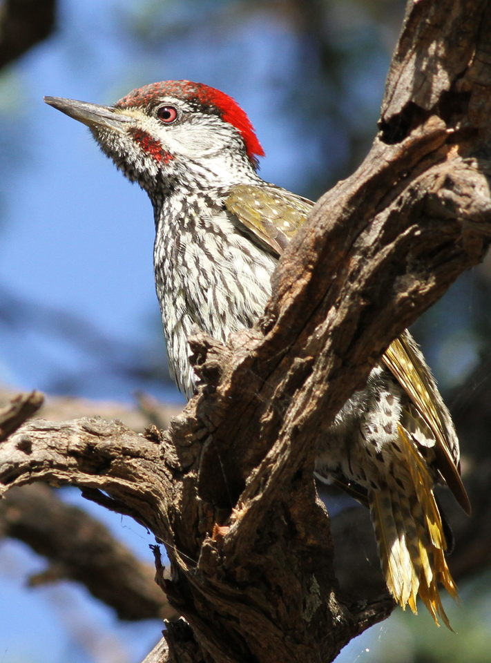 Golden-tailed Woodpecker - MALE, Campethera abingoni, at Borakalalo National Park, Northwest Province, South Africa